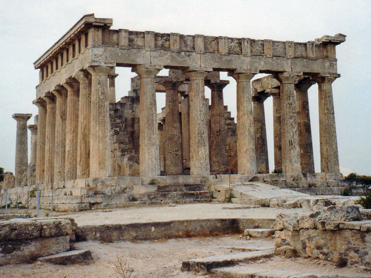 A view from the east. The temple sits a top the highest point on the island of Aegina.